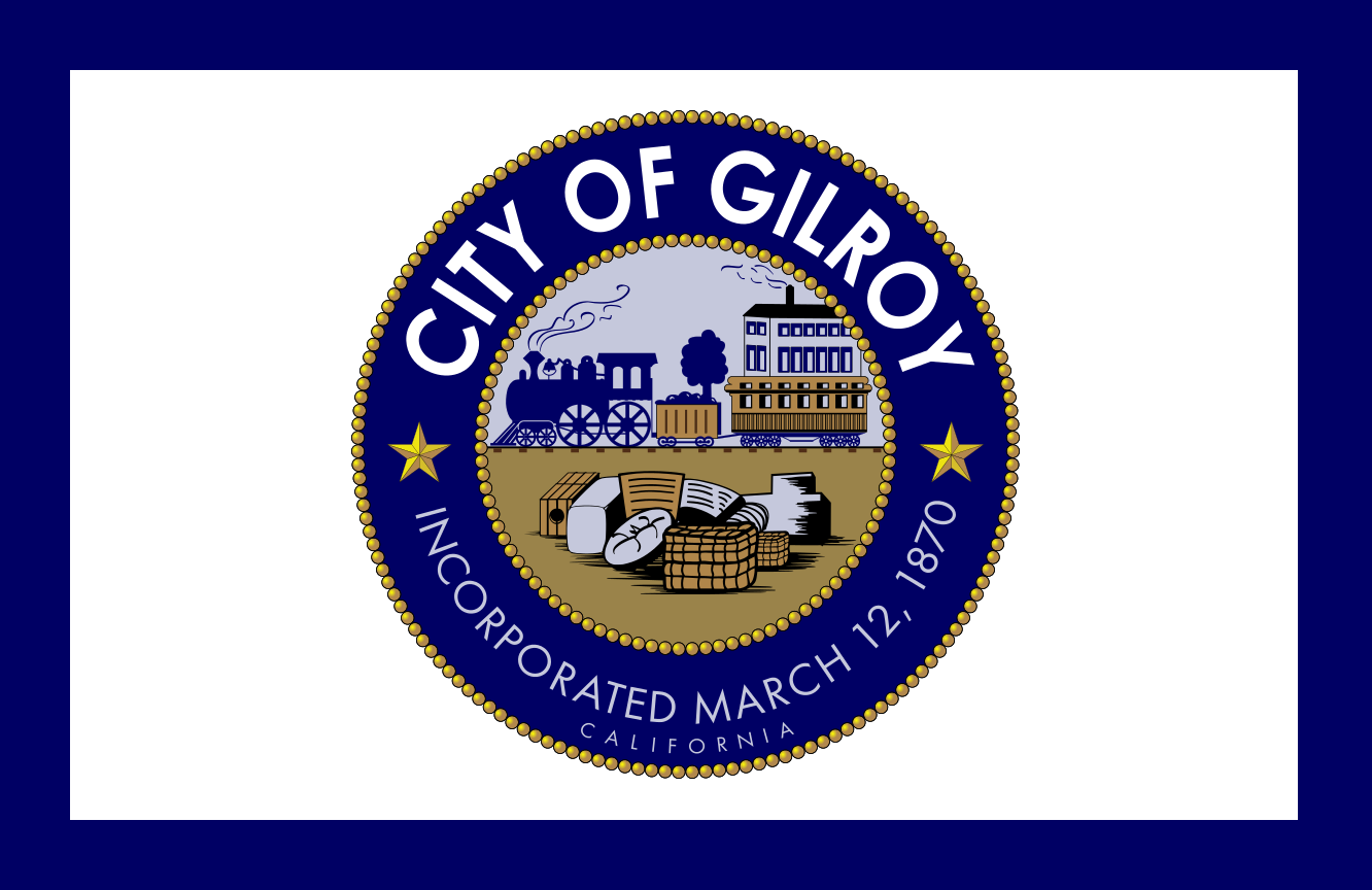 The official city flag of Gilroy, California, adopted in July 2003. Additional information about the flag itself can be found here.